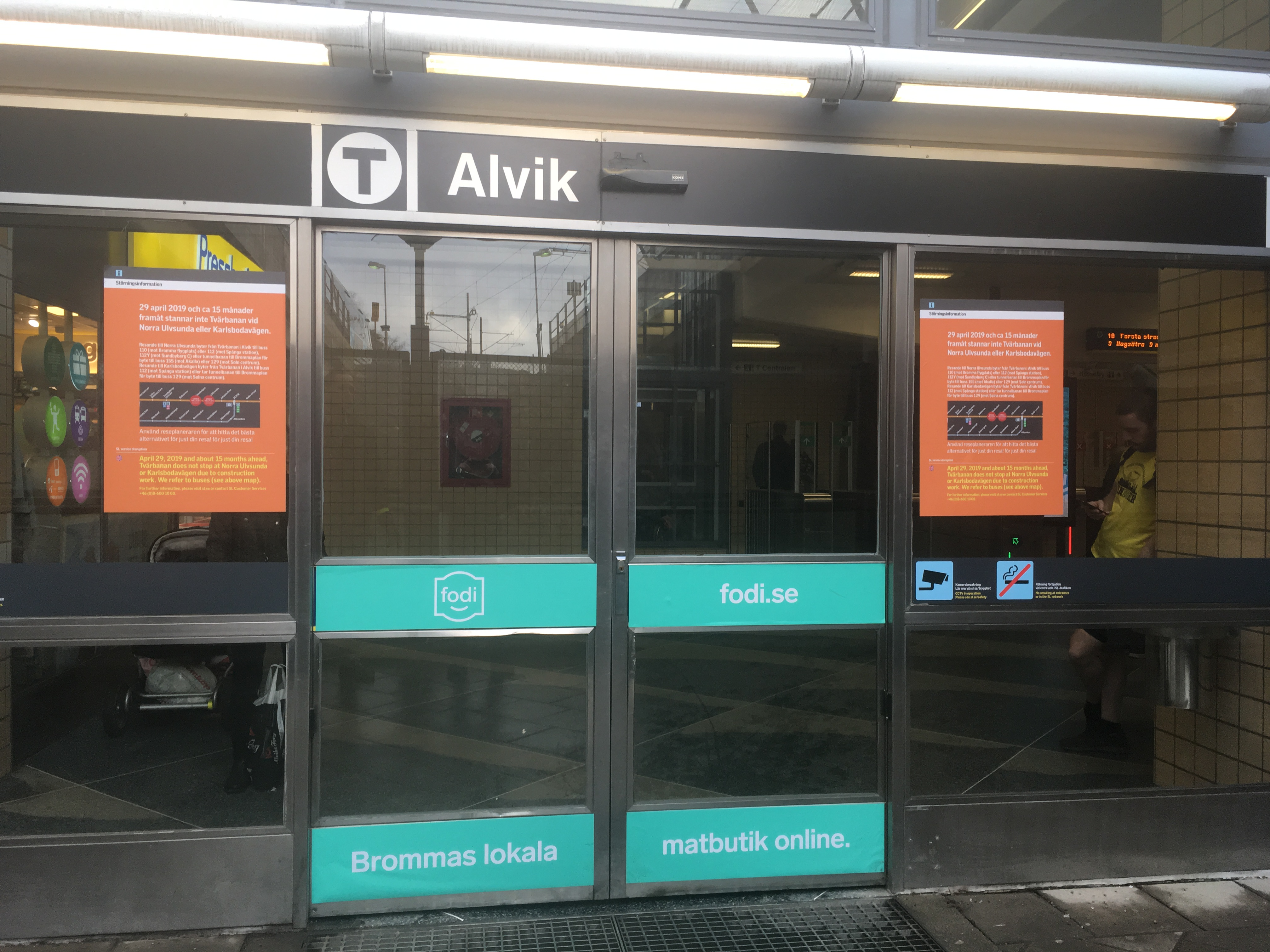 Alvik metro station entrance